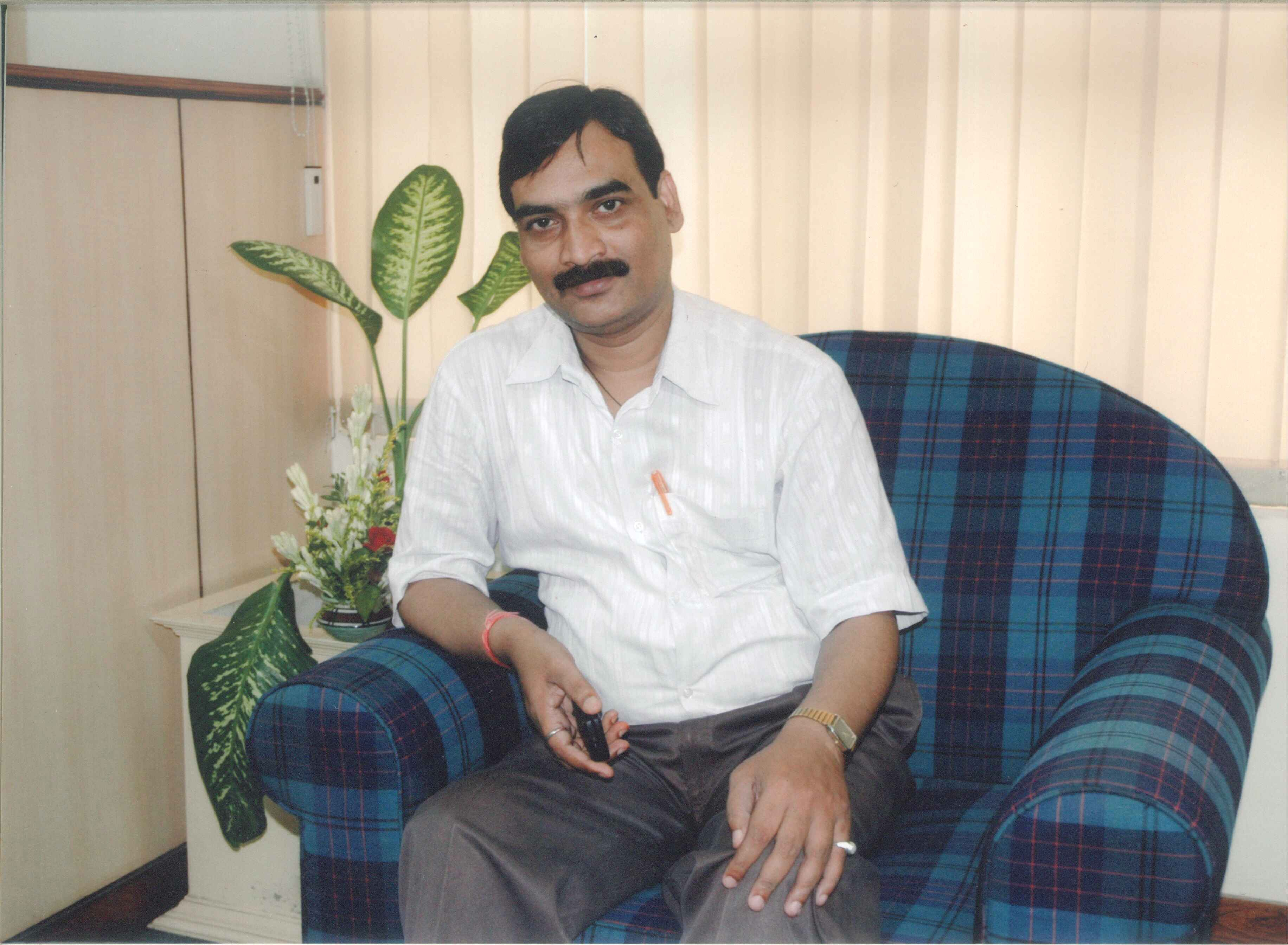 Indian fiction Writer Ravindra Prabhat in his home in 14 December 2008